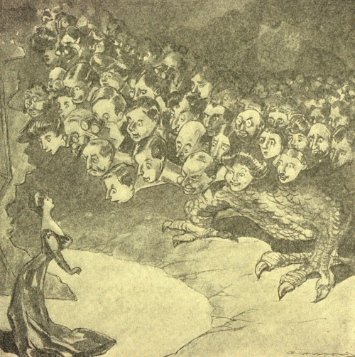 (Removed after reusableart request.)